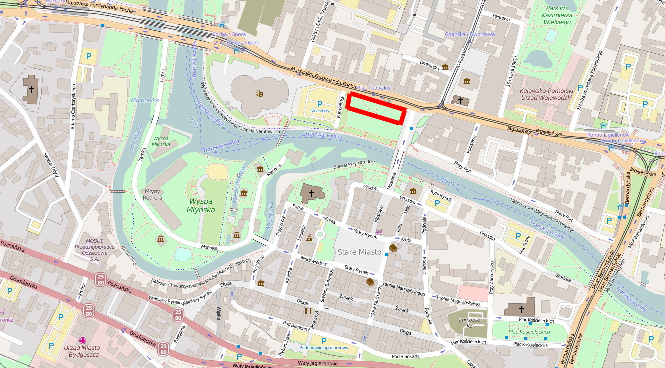 Location of the theatre on a current map